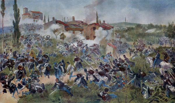 Austrian final assault in Custoza (1866), third italian independence war.